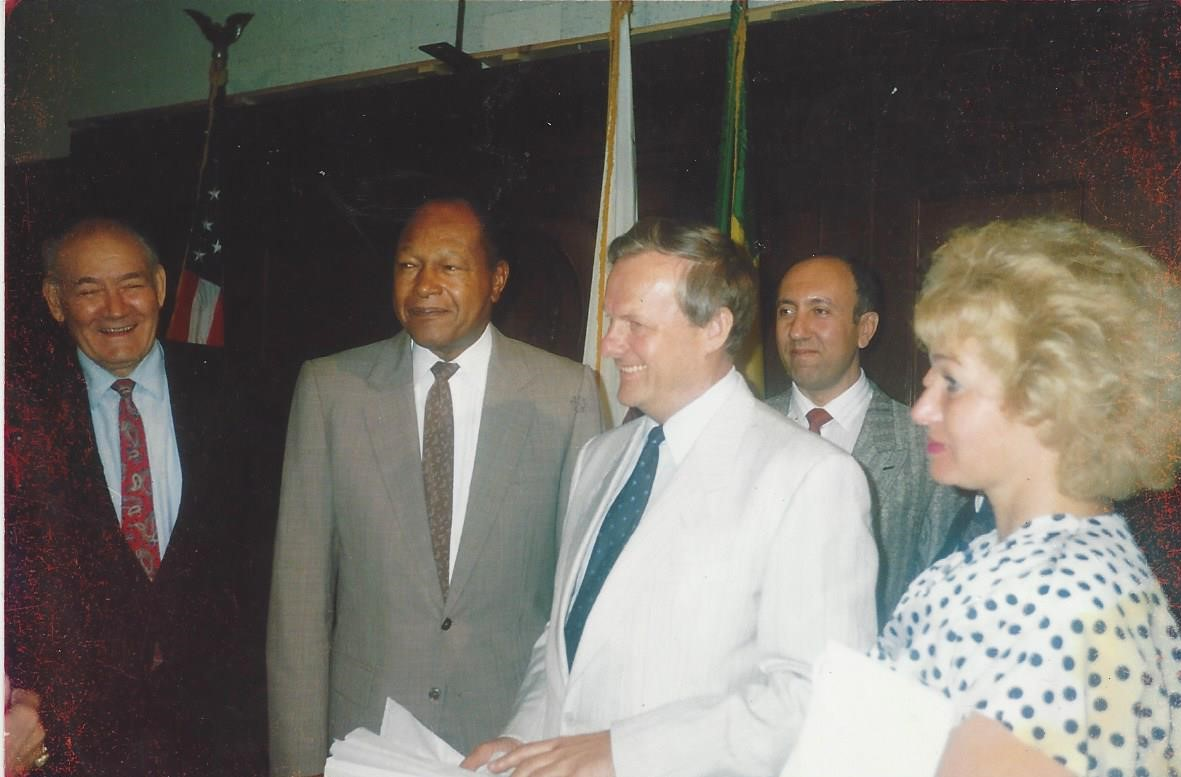 With Sobchak, meyor of Sankt-Petersburg and Bredly, meyor of Los-Angeles